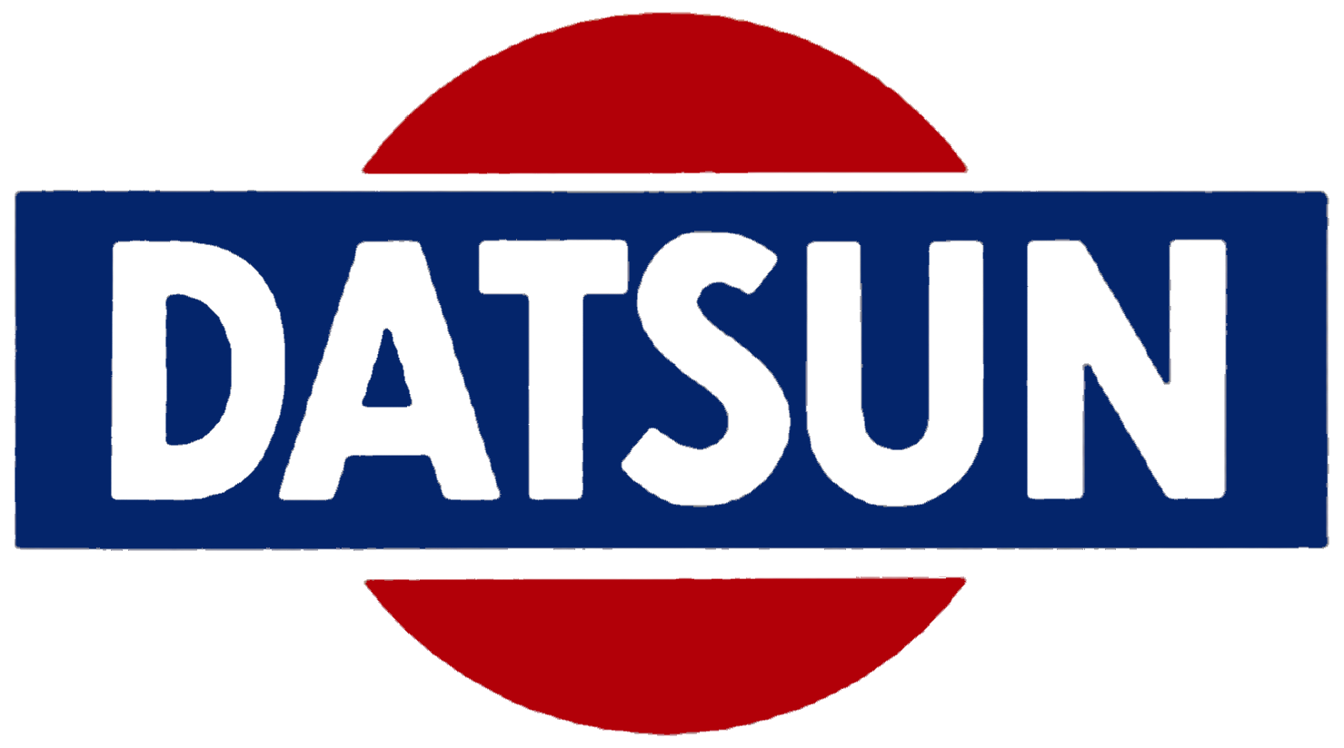 This is a logo, a recreation of the same exact design in the official version.